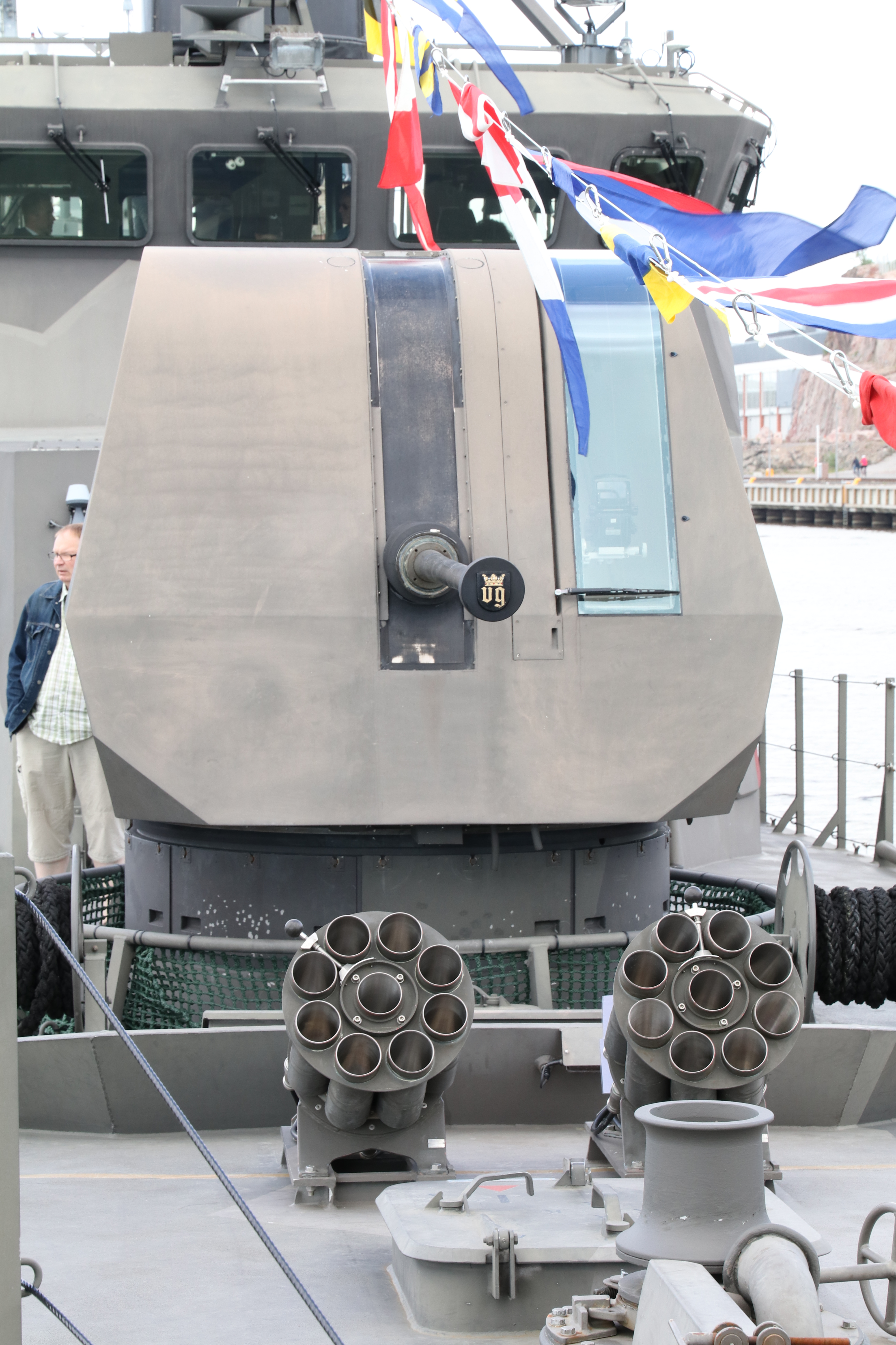 Finnish navy missile boat Naantali (73). Bofors 40 mm bow gun and Elma anti-submarine mortars. Photographed in 2016 Finnish defence forces flag day equipment exhibition in Turku Forum Marinum.